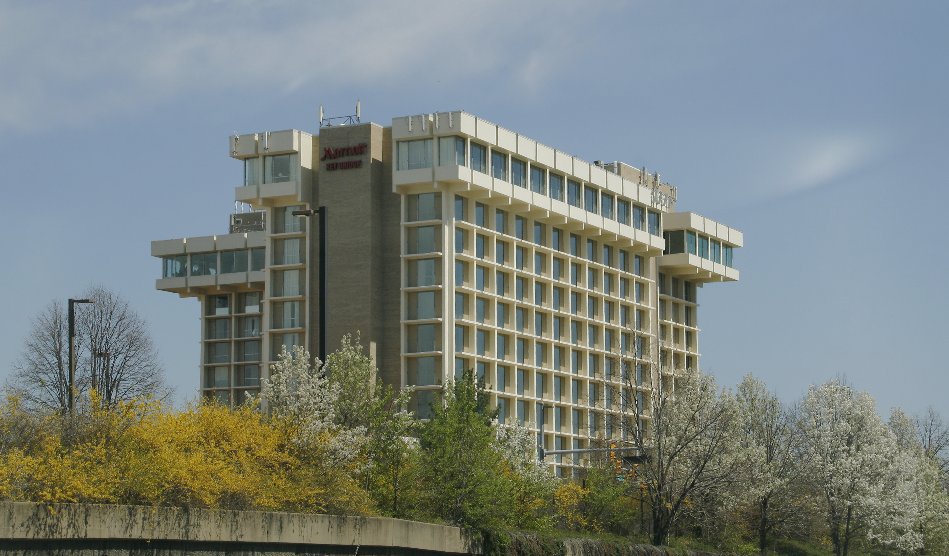 Perhaps the most obscure Watergate landmark is the parking lot at the Key Bridge Marriott. In April 1972 (before the famed June 17 break-in), White House aide Alexander Butterfield used the Key Bridge Marriott parking lot to hand off $350,000 in cash—in $50 and $100 bills from a Nixon campaign "reserve fund"—to Leonard Lilly, who was to make deliveries upon direction.